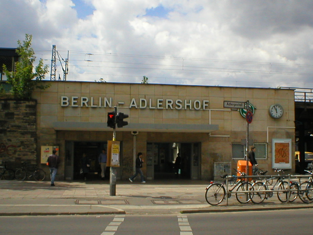 the Berlin S-Bahn station Adlershof, entrance building